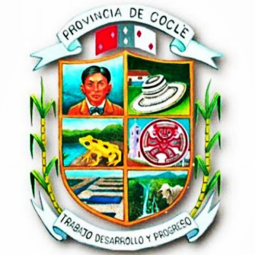 Coat of arms of Coclé Province, Panama.